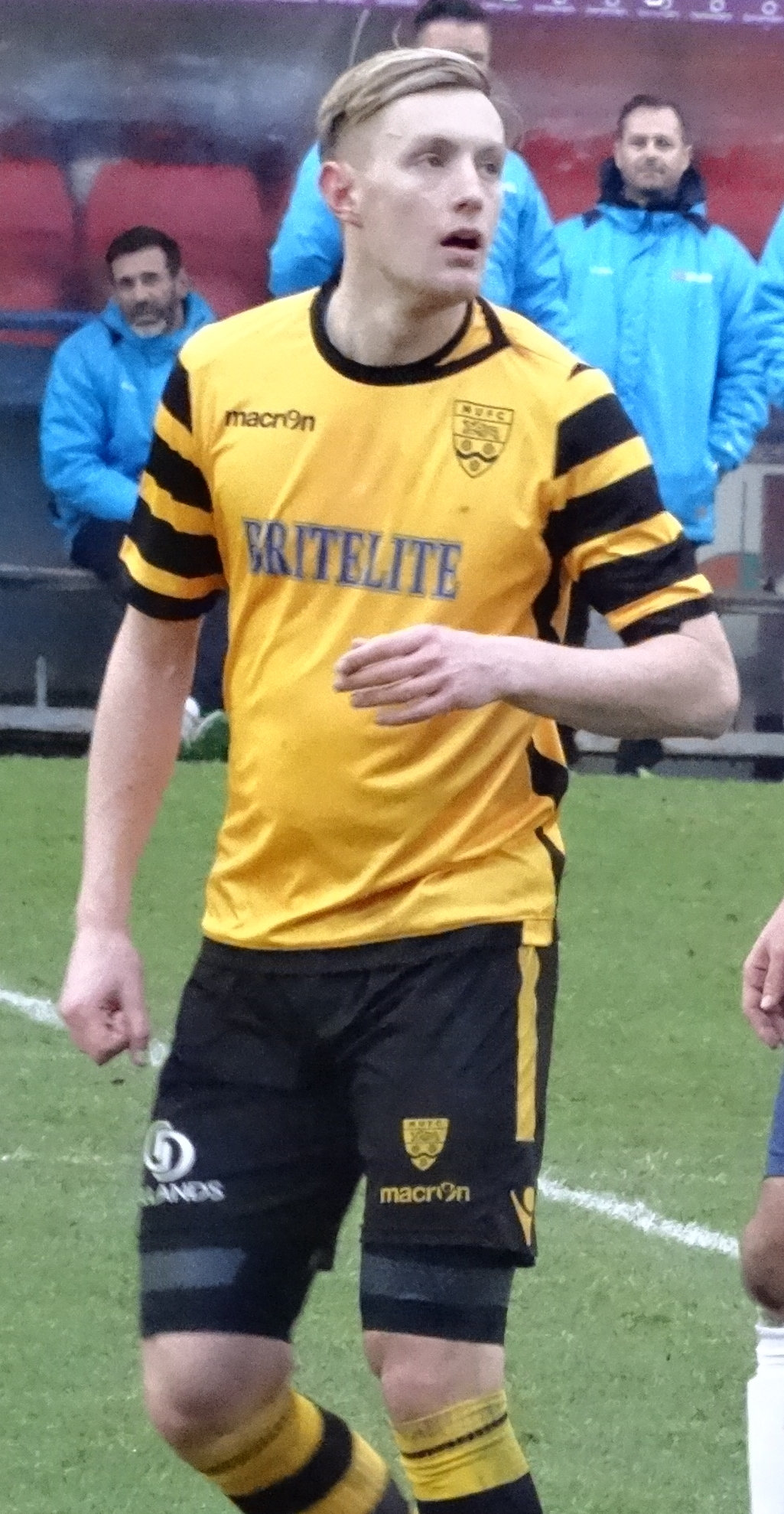 Joe Pigott playing for Maidstone United against York City at Bootham Crescent, York on 11 February 2017